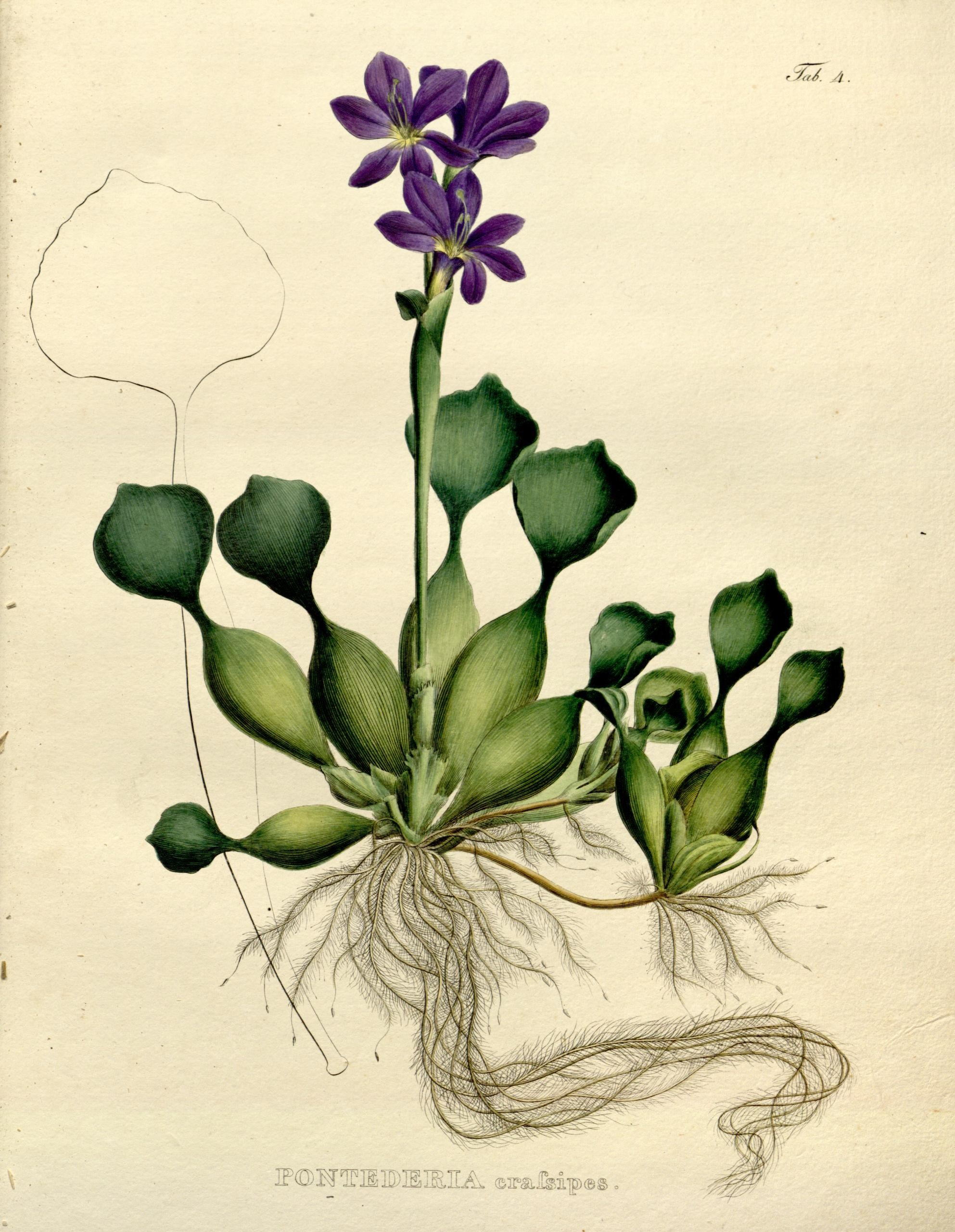 Pontederia crassipes = Eichhornia crassipes Nova genera et species plantarum. Monachii [Munich] :Impensis Auctoris,1824-1829 [i.e. 1824-32]..